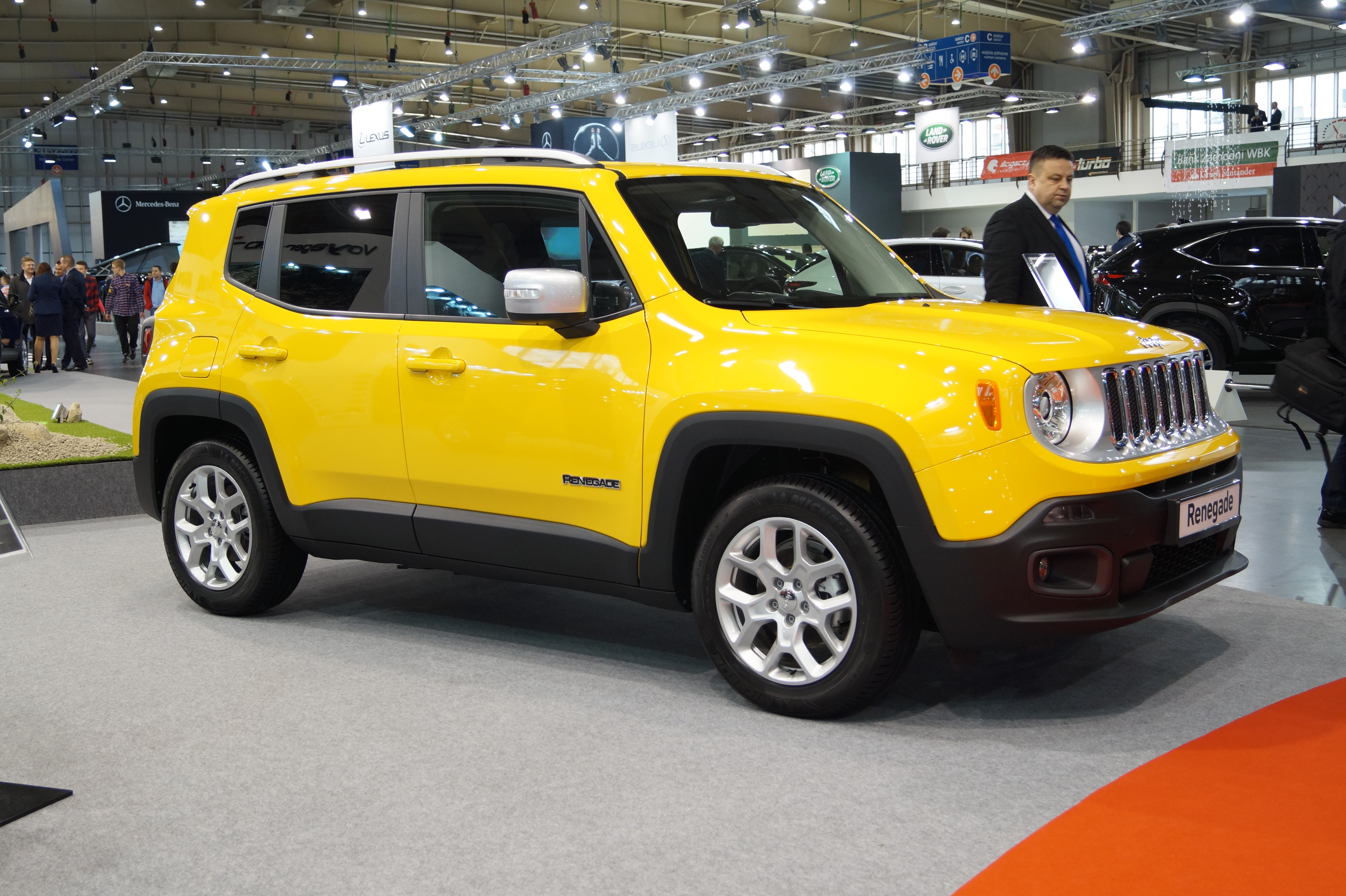 The making of this document was supported by Wikimedia Polska Association, within Wikigrant no. WG 2015-19. English | polski | +/− Przód Jeepa Renegade na Motor Show Poznań 2015